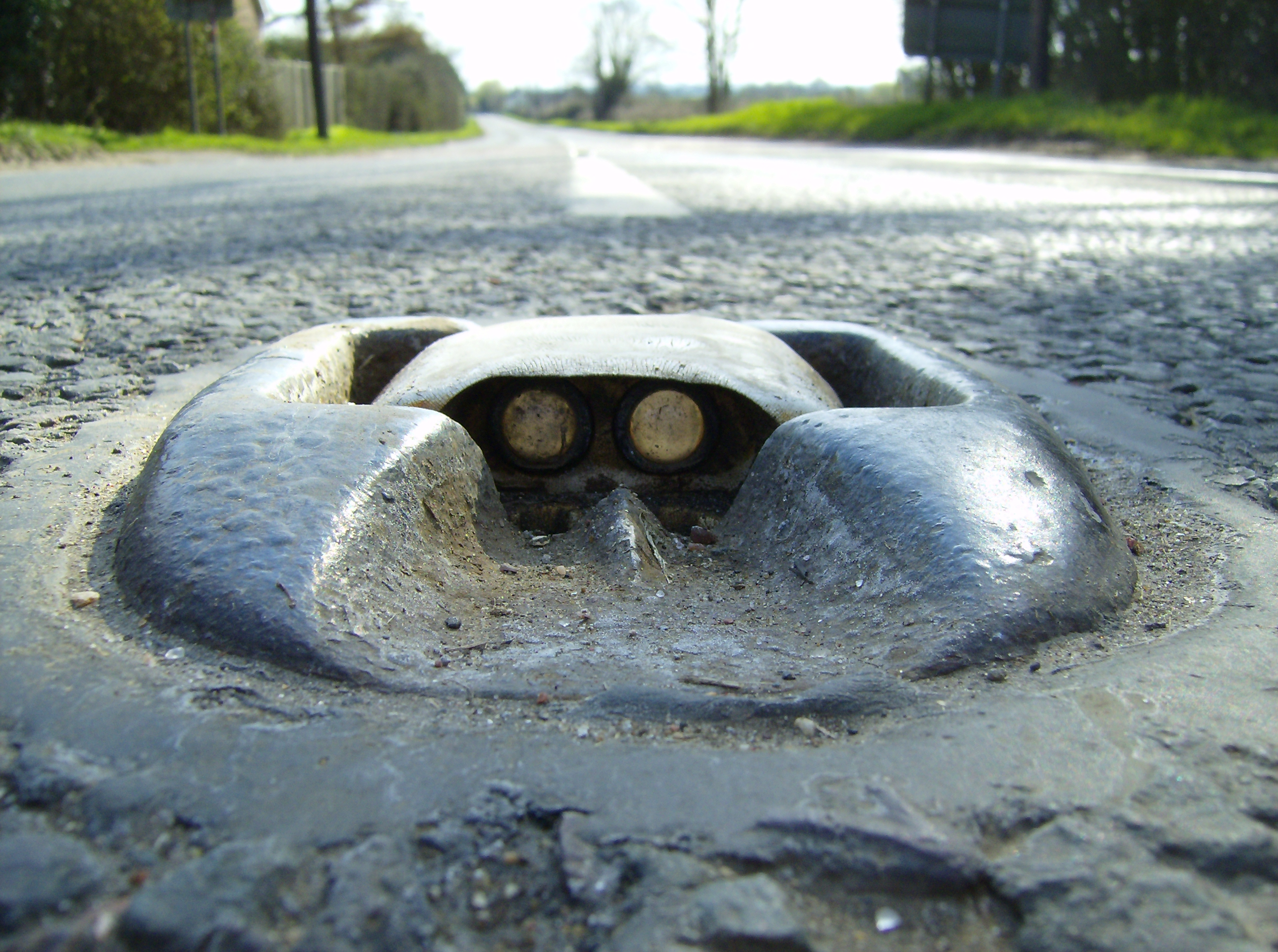 An Image showing a Lightdome road stud